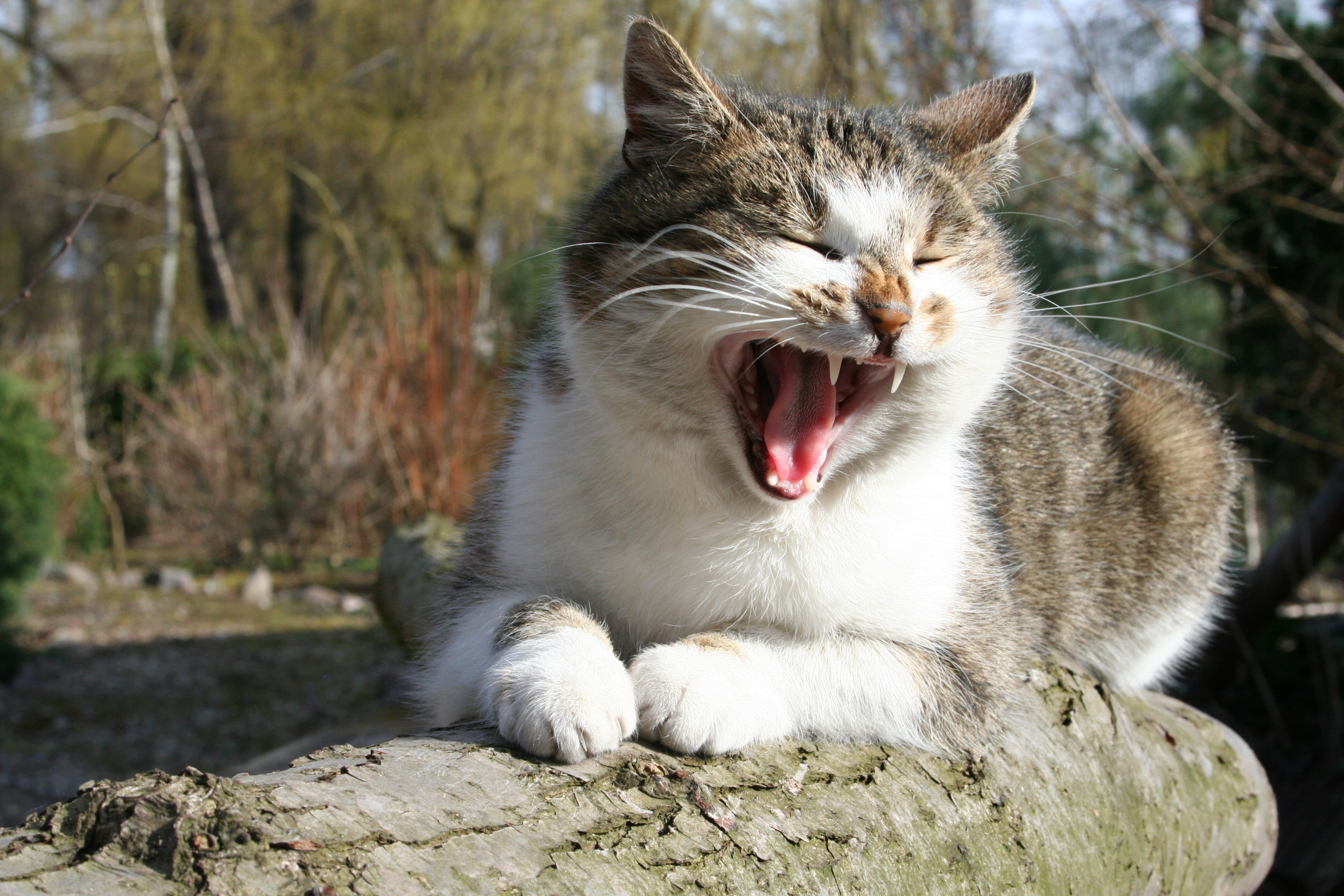 my cat